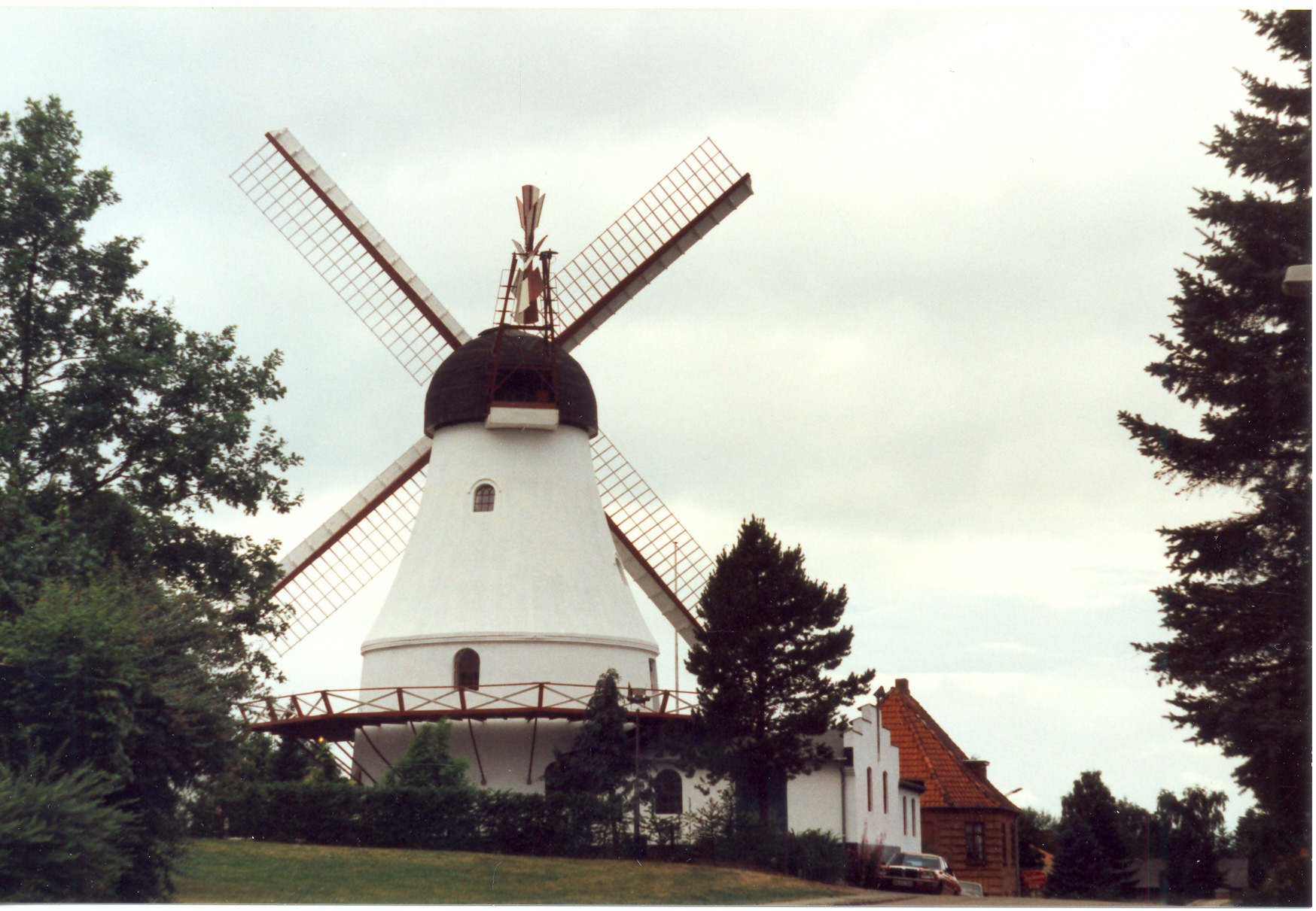 The Windmill in Vejle, Denmark, in July 1989